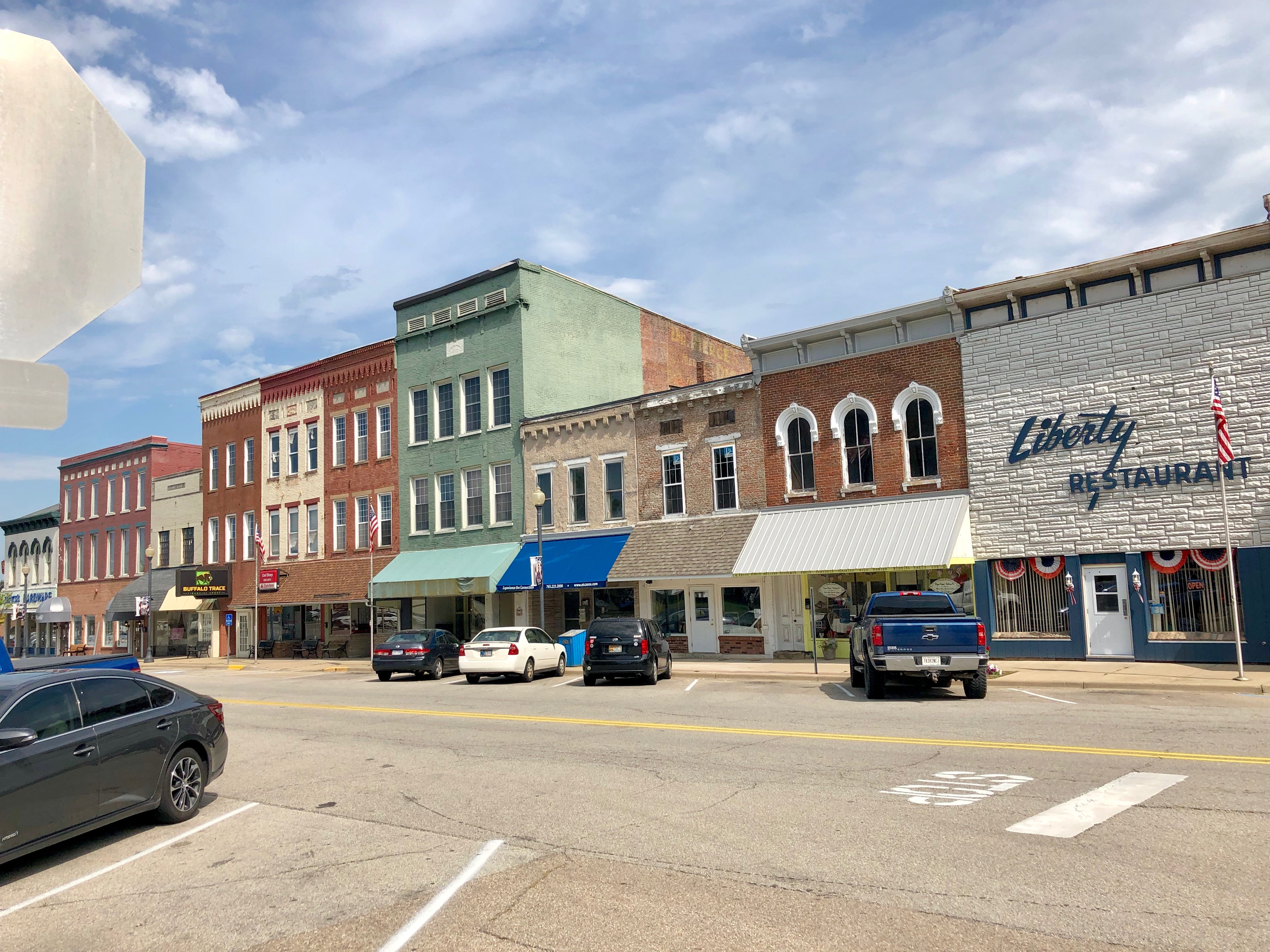 Union Street, Liberty, IN